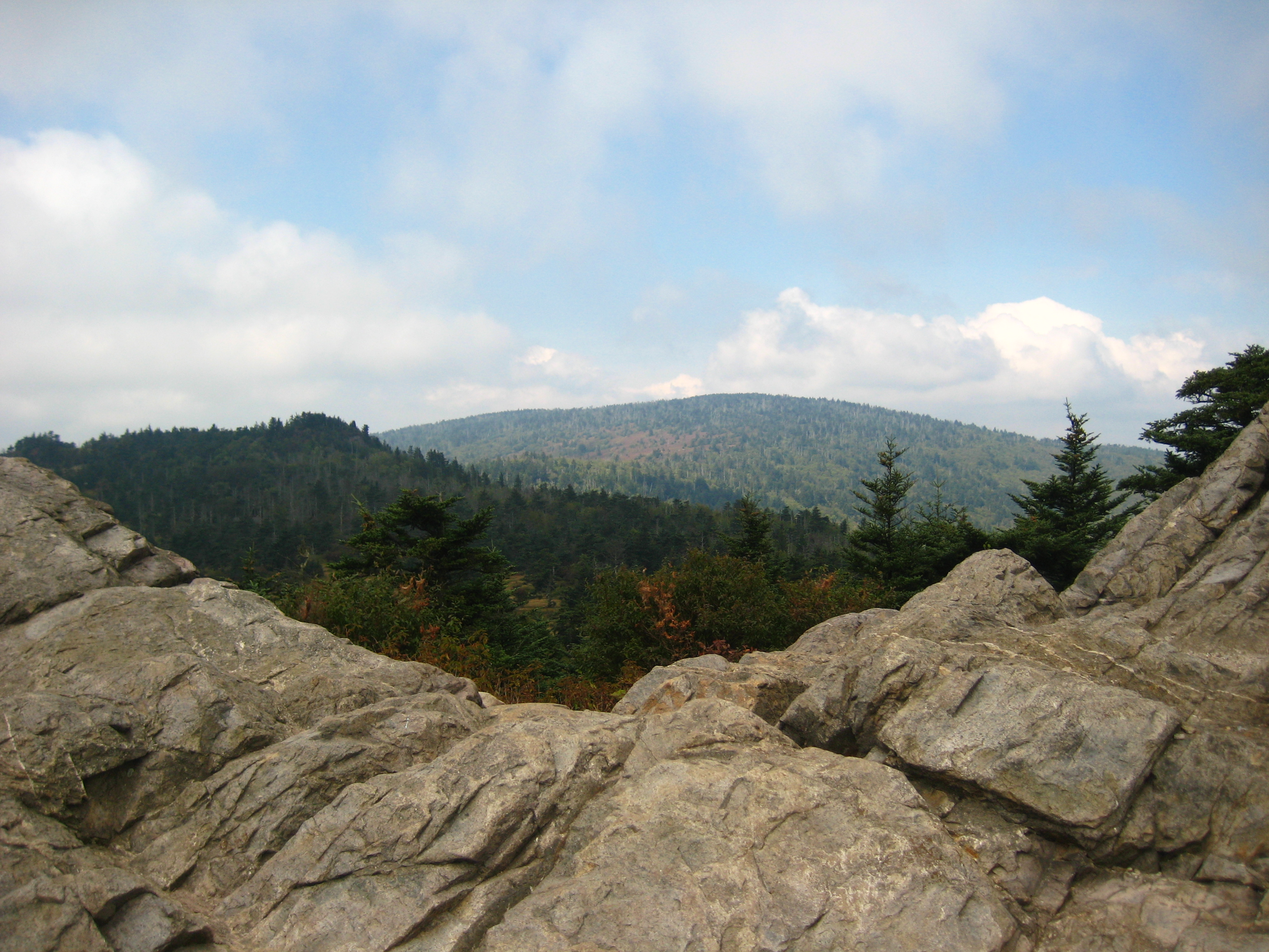 Mount Rogers National Recreation Area, with Mount Rogers in the background. Trees in foreground are Abies fraseri.